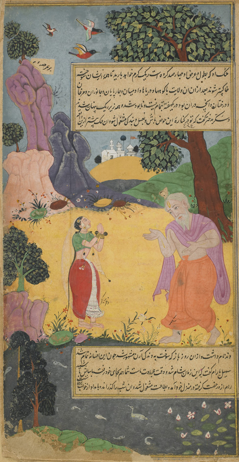 Folio from the Ramayana of Valmiki (The Freer Ramayana), Vol. 2, folio 336; recto: Sukracarya advises his daughter Aruja to remain beside the lake near his hermitage while a dust storm devastates the accursed kingdom of Danda; verso: text 1597-1605 Kamal , (Indian, Mughal dynasty Opaque watercolor, ink, and gold on paper H: 27.5 W: 15.2 cm Northern India Gift of Charles Lang Freer F1907.271.336